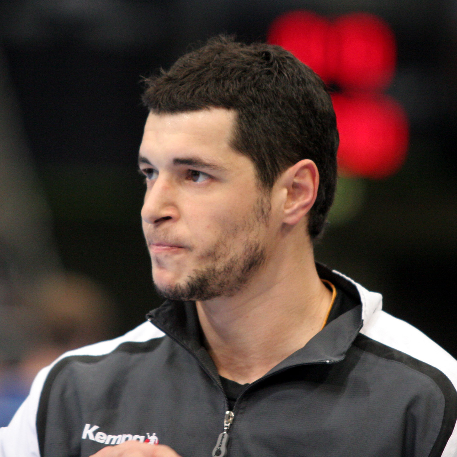 Alberto Entrerrios, handball player of BM Ciudad Real (Spain), in the Kölnarena prior the champions league game VfL Gummersbach vers. BM Ciudad Real on February 20th, 2008